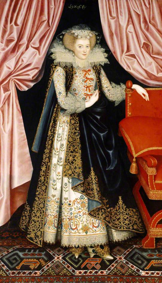 Probably Elizabeth Cary, Later Viscountess Falkland by William Larkin (c. 1585-1619)